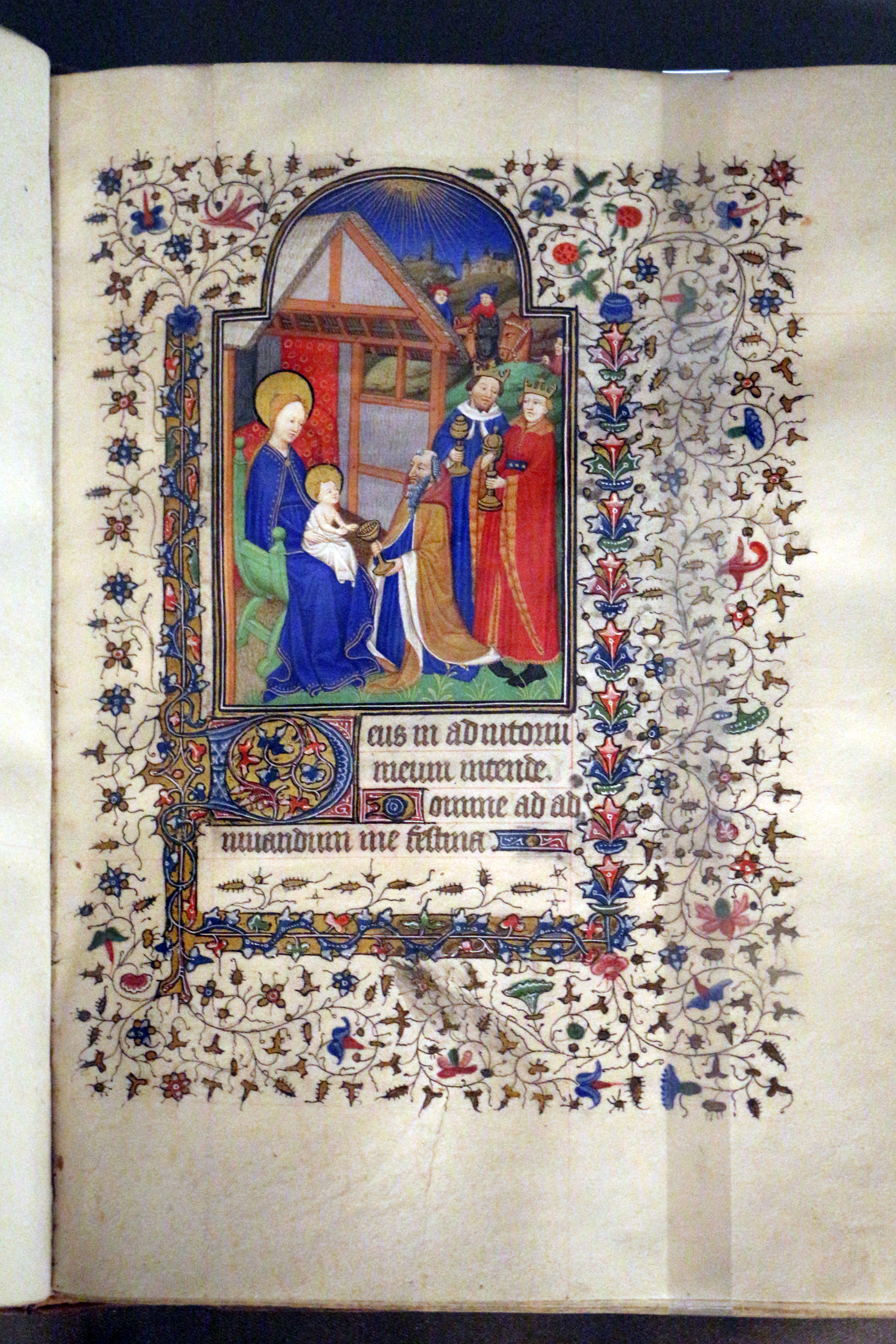 Biblioteca trivulziana (Milan)